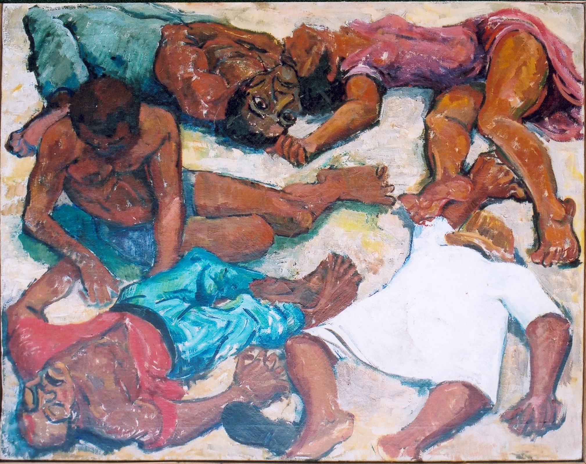 Painting of the Sharpeville massacre, which took place 21 March 1960, Sharpeville, Gauteng province, South Africa, currently located in the South African Consulate in London